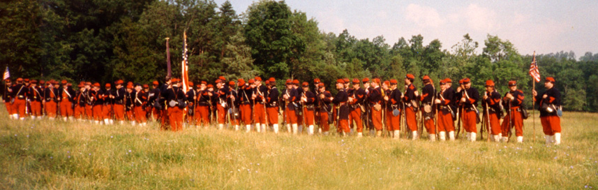 14th Brooklyn Re-activated